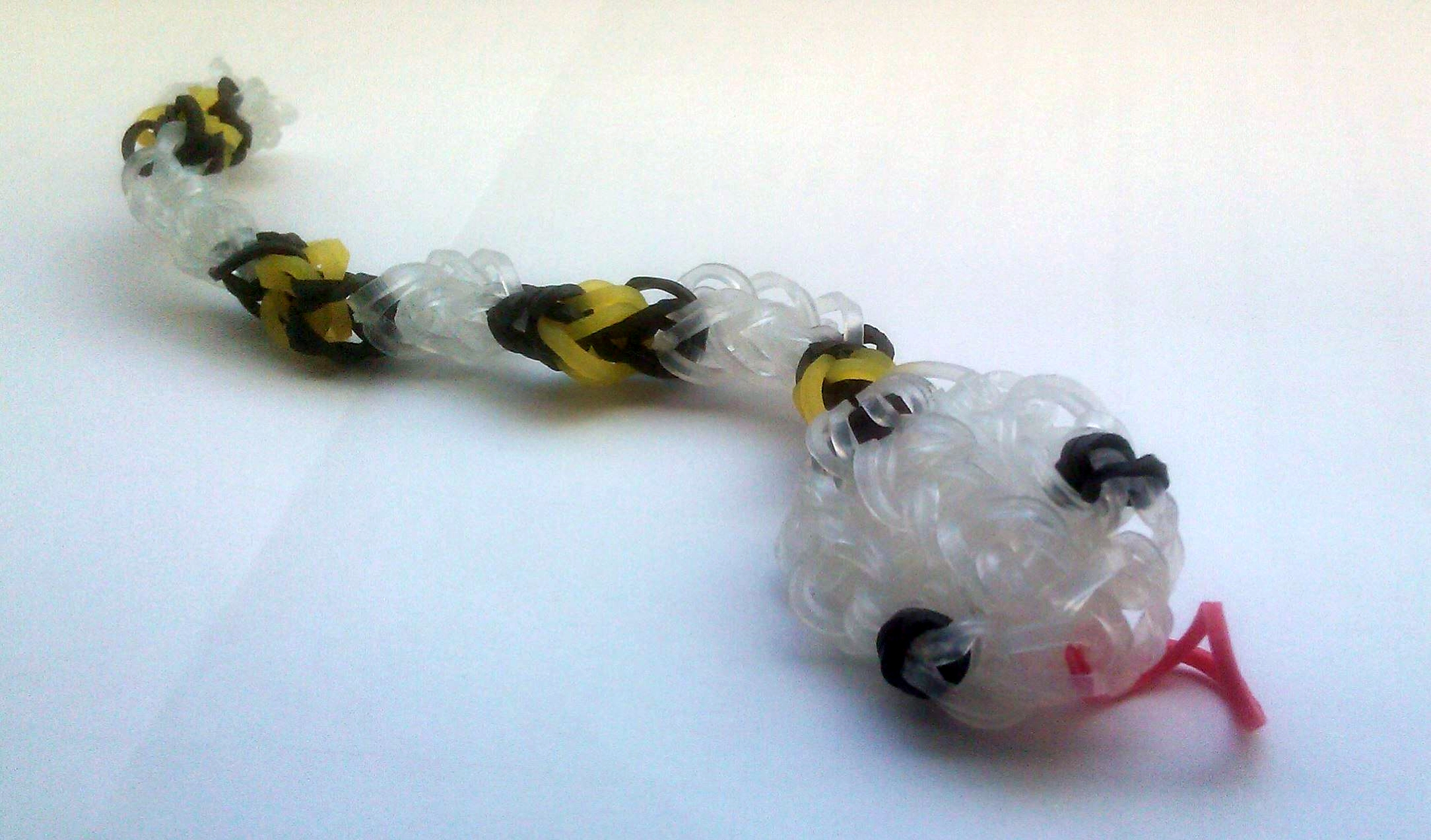 Snake, made by Anna de Roo with Rainbow Loom